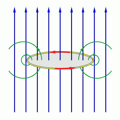 Principles of magnetic flux compression - second phase Inspired by a drawing in a document from Los Alamos National Laboratory